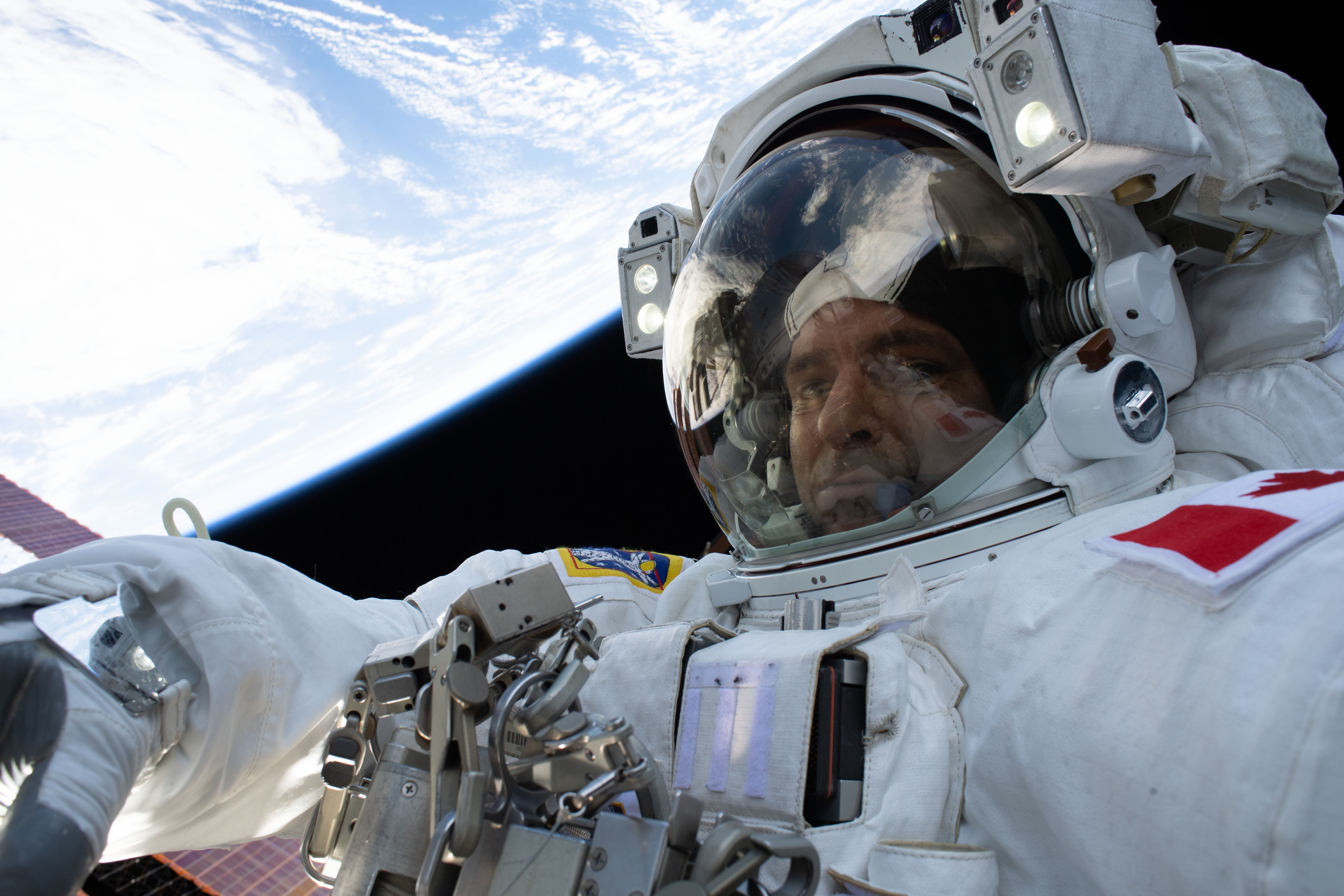 Expedition 59 Flight Engineer David Saint-Jacques of the Canadian Space Agency participates in a six-and-a-half hour spacewalk with NASA astronaut Anne McClain (out of frame). The spacewalkers successfully established a redundant path of power to the Canadian-built robotic arm, known as Canadarm2, and installed cables to provide for more expansive wireless communications coverage outside the orbital complex, as well as for enhanced hardwired computer network capability. The duo also relocated an adapter plate from the first spacewalk in preparation for future battery upgrade operations.